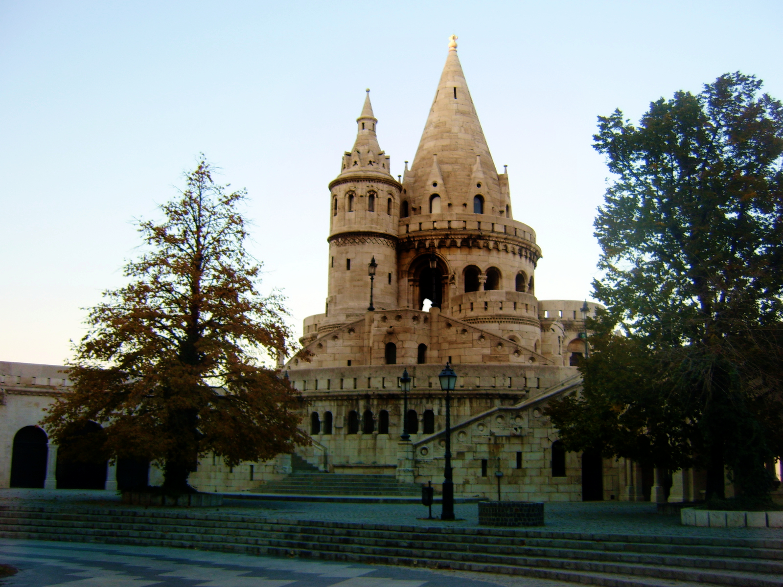 Fisherman's Bastion in Budapeszt